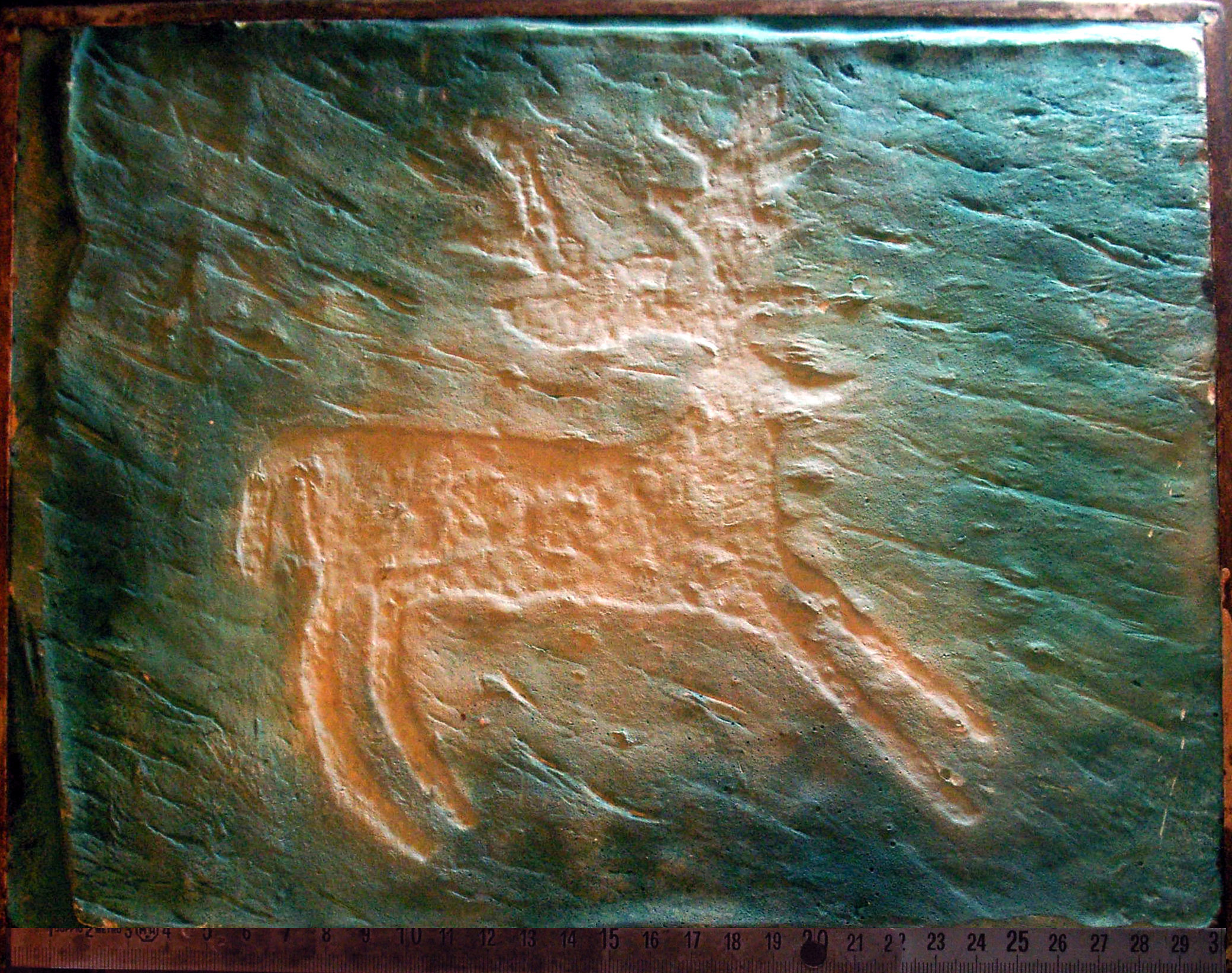 Plaster casting of a rock engraving of a deer representative Valcamonica made in 1965